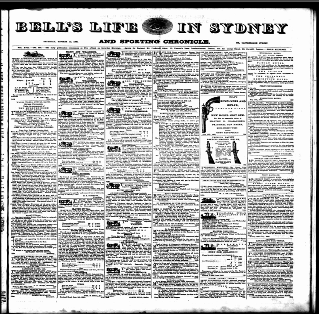 Coverpage of a historic newspaper from New South Wales, Australia.